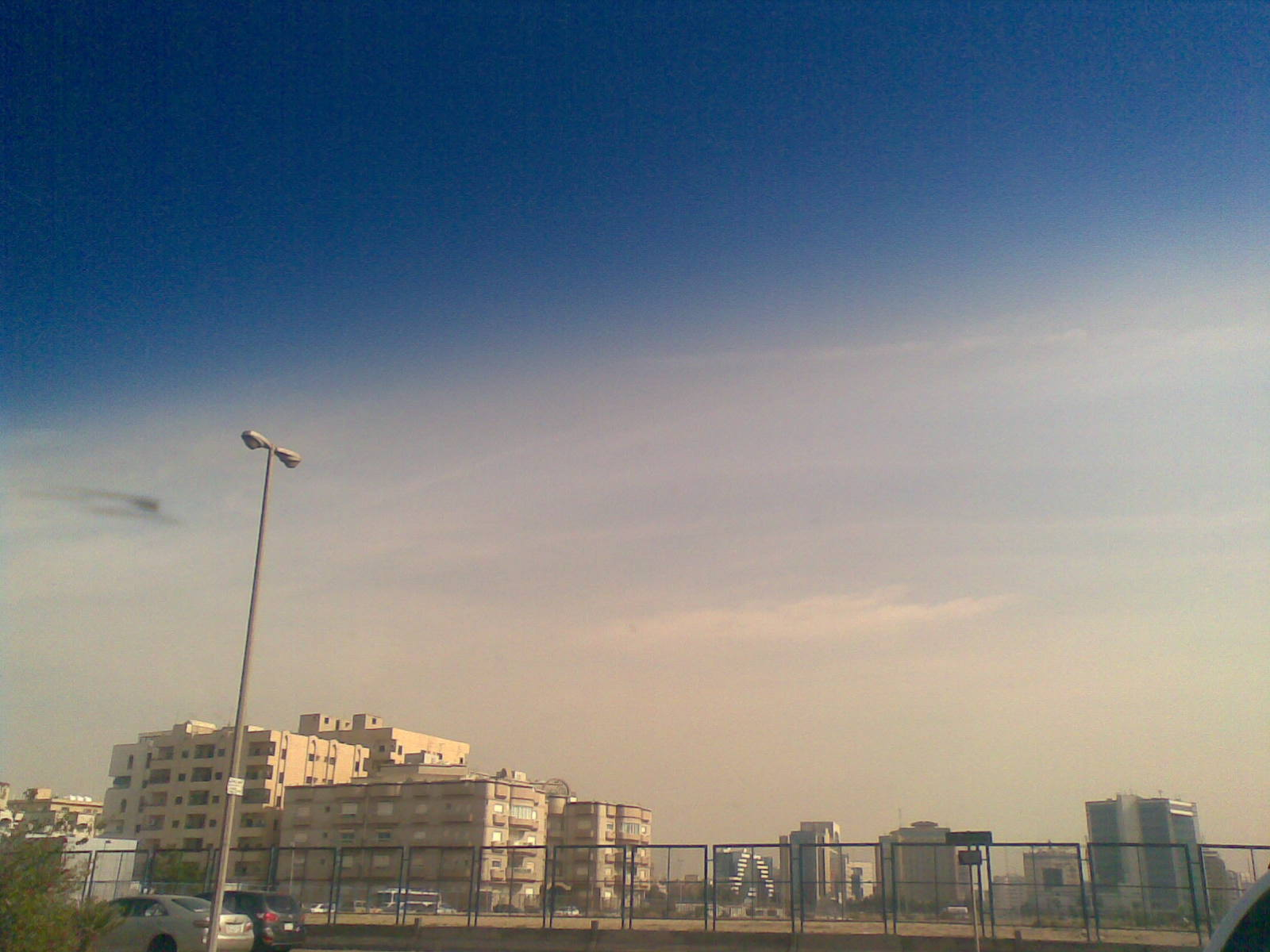 Eriyad